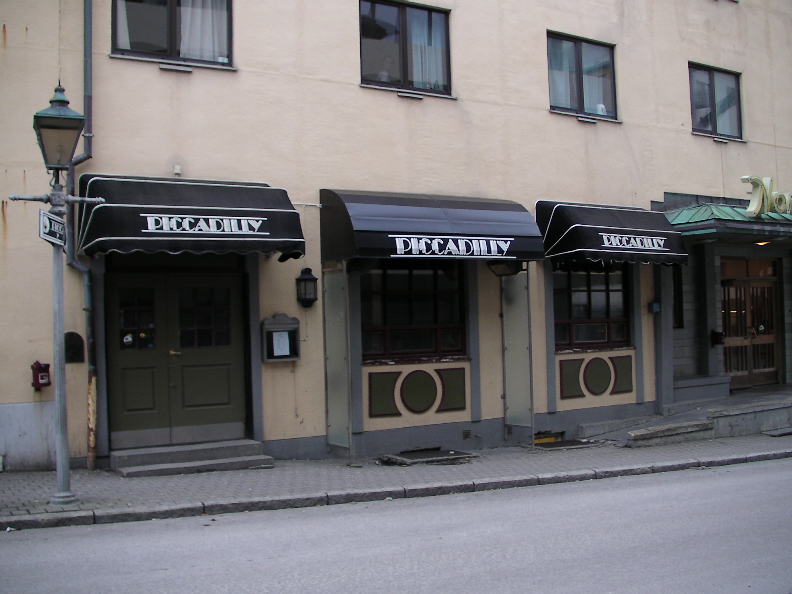 Piccadilly Bodo